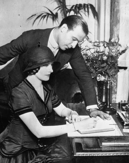 Rudolph Valentino with his second wife Natacha Rambova.